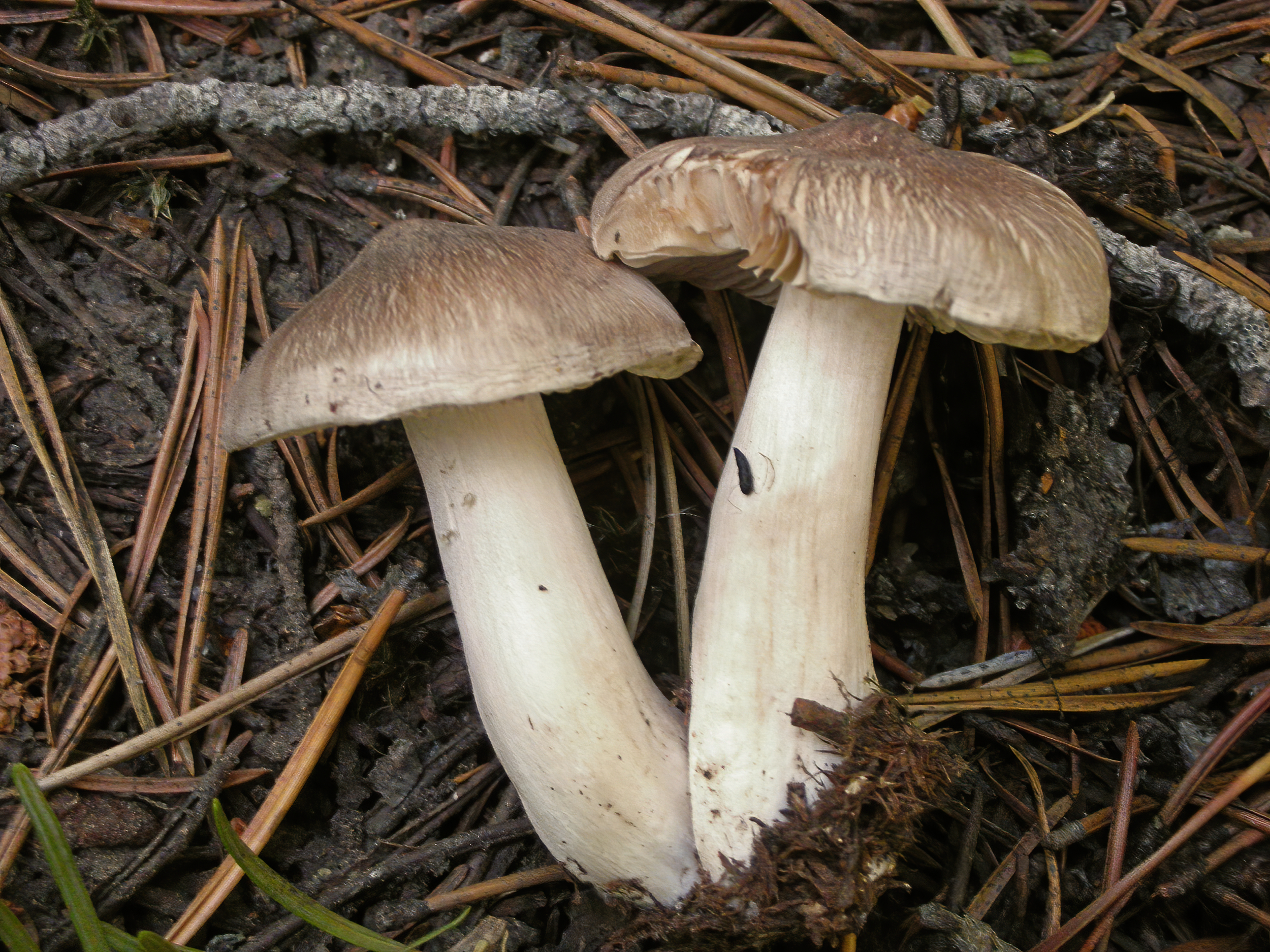 Tricholoma virgatum from McCall, Idaho, USA collected at the NAMA 2008 Foray. I don’t remember if they were officially identified. Based on the umbo, cap color and radiating fibrils, I’m tentatively going with T. virgatum.